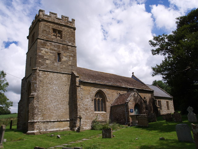 St Mary's parish church, Seavington St Mary, Somerset, seen from south-southwest